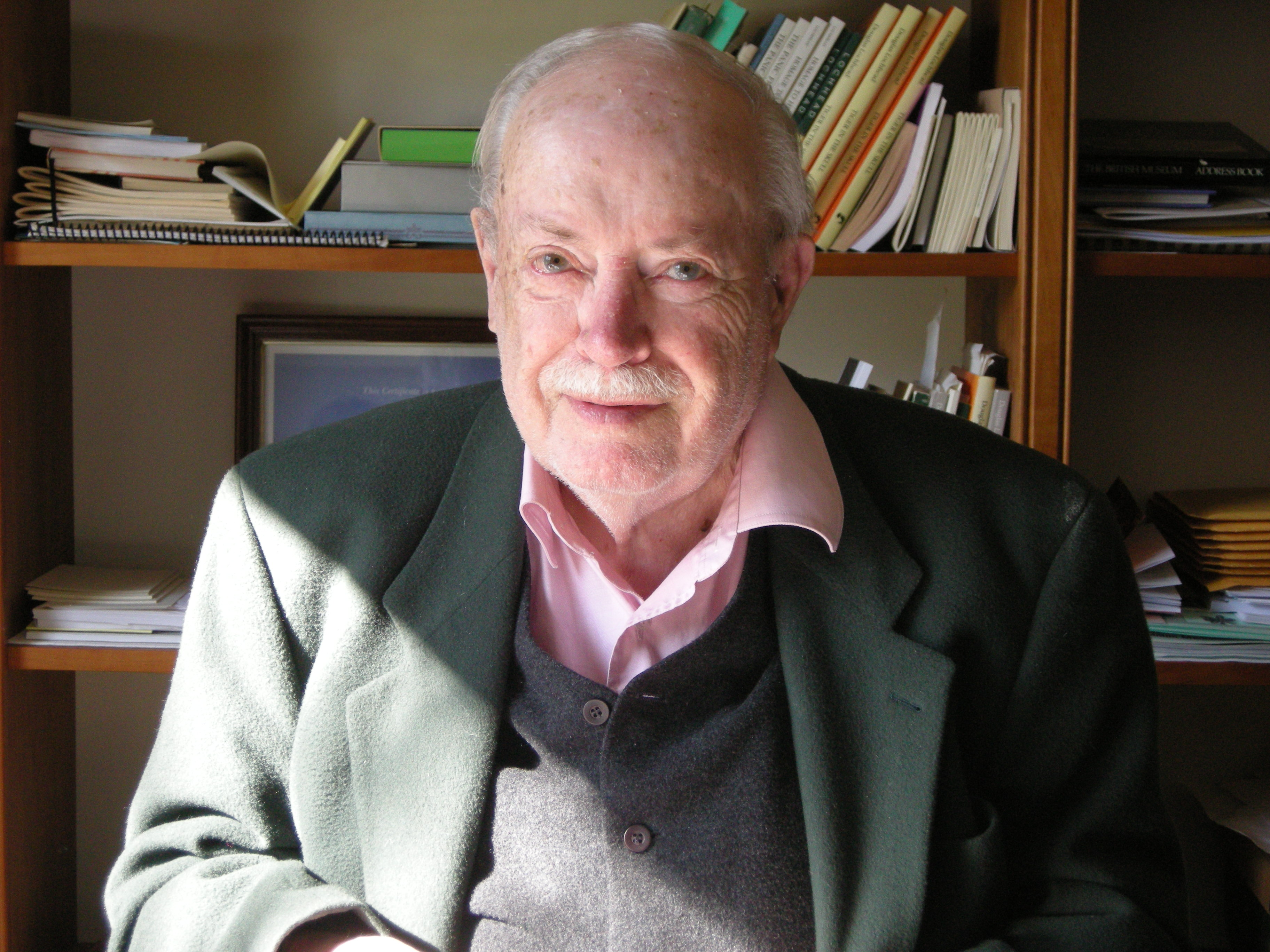 This is a 2008 photo of Canadian poet Douglas Lochhead